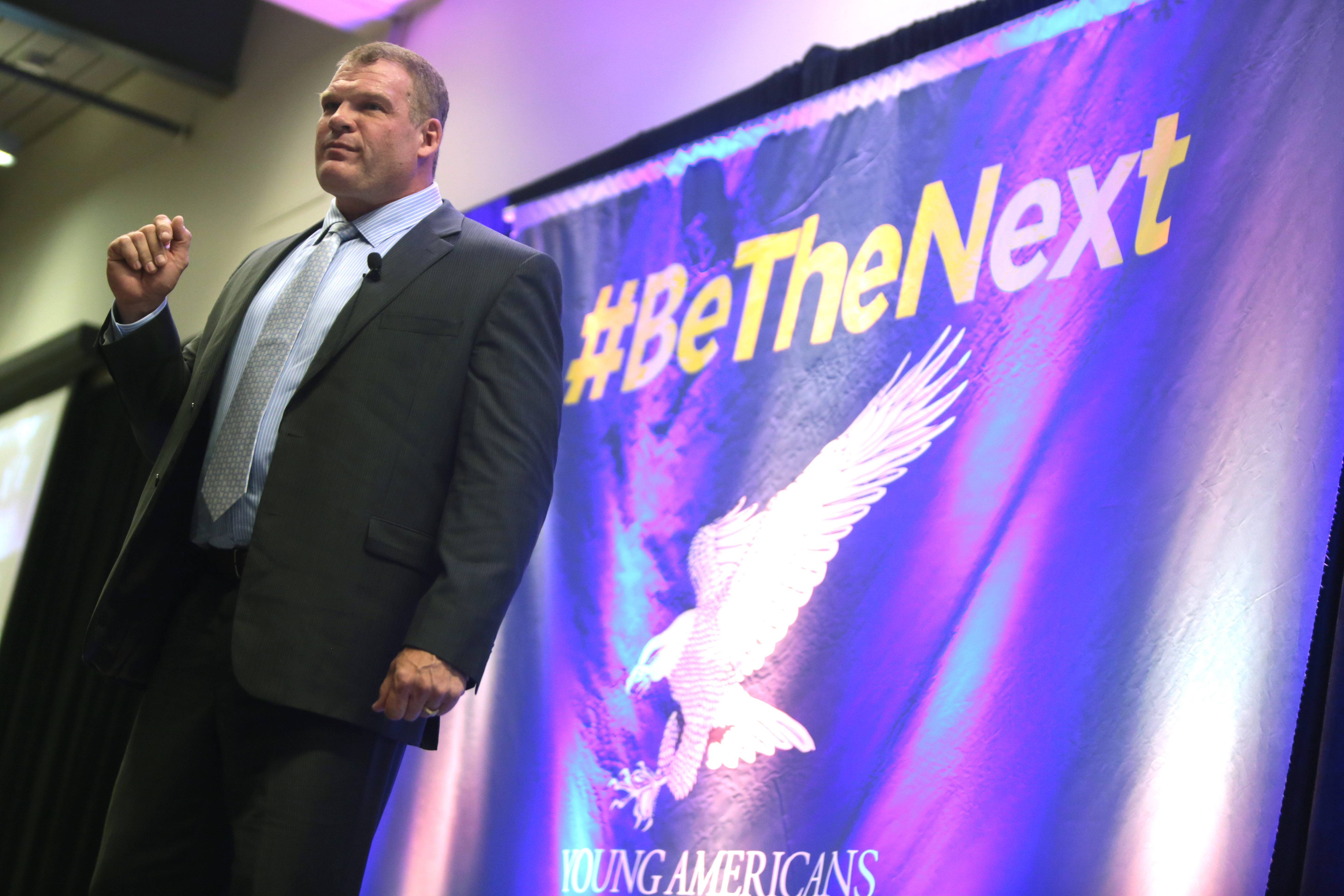 Glenn "Kane" Jacobs speaking at the 2016 Young Americans for Liberty National Convention at the Catholic University of America in Washington, D.C.